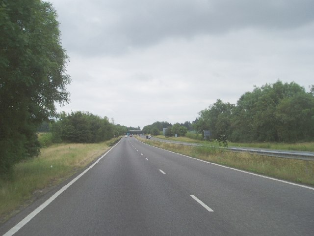 A22 Godstone Bypass. This road was built to relieve the traffic through the picturesque village of Godstone